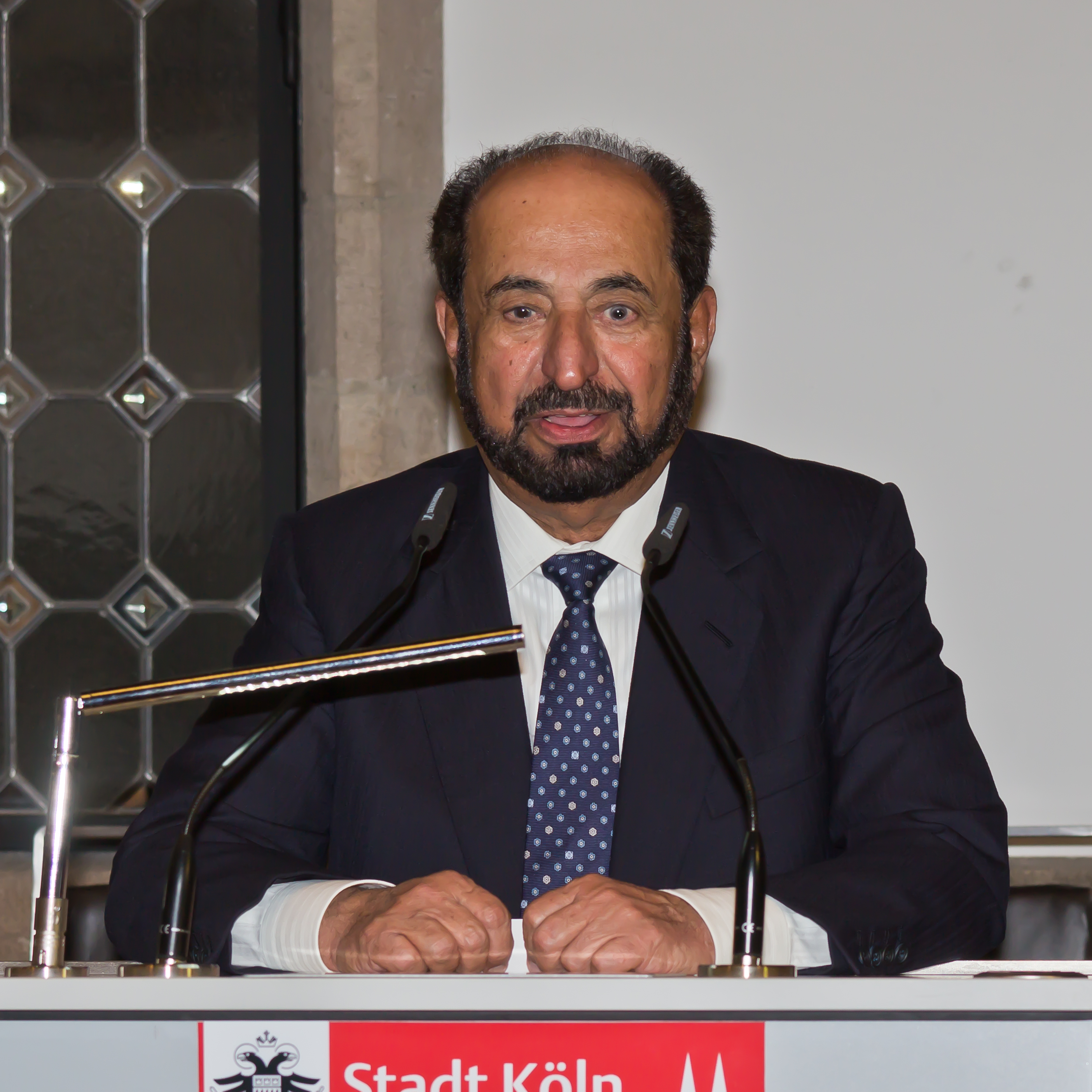 Reception for Sheikh Sultan III bin Mohammed Al-Qasimi, ruler of the Sharjah emirate, in the town hall of Cologne, Germany